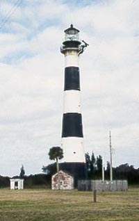 Cape Canaveral Light, a lighthouse in Cape Canaveral Air Force Station, Florida. Originally located at File:Capecanaverallh.jpg on the English Wikipedia.